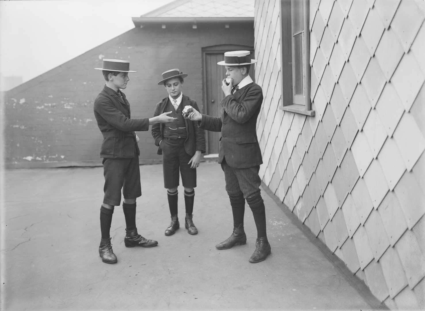 Title: Boys eating from same piece of fruit, "bite for bite" Dated: June 1914 Digital ID: NRS4481_MS2865 Series: Government Printing Office glass plate negatives This was digitised as part of State Records NSW commemorations. Rights: No known copyright restrictions We'd love to if you use our photos/documents. Many other photos in our collection are available to view and browse on our website using